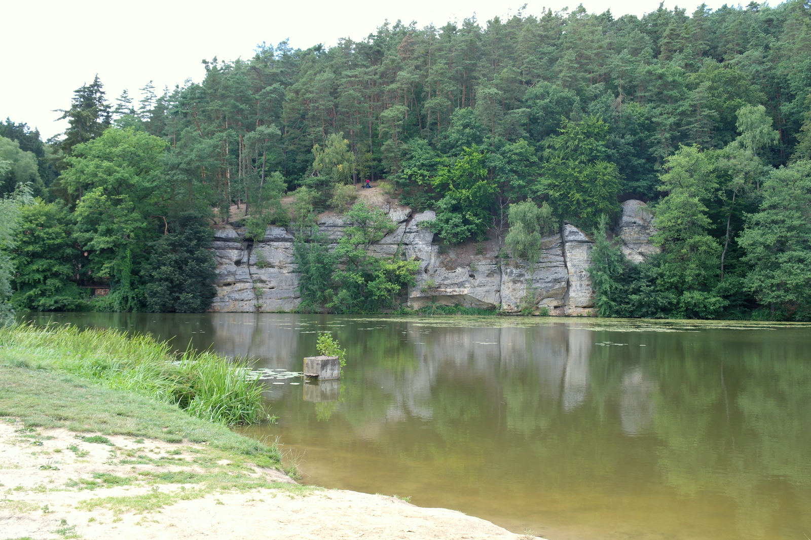 Harasov pond, Kokořín municipality, Mělník District.